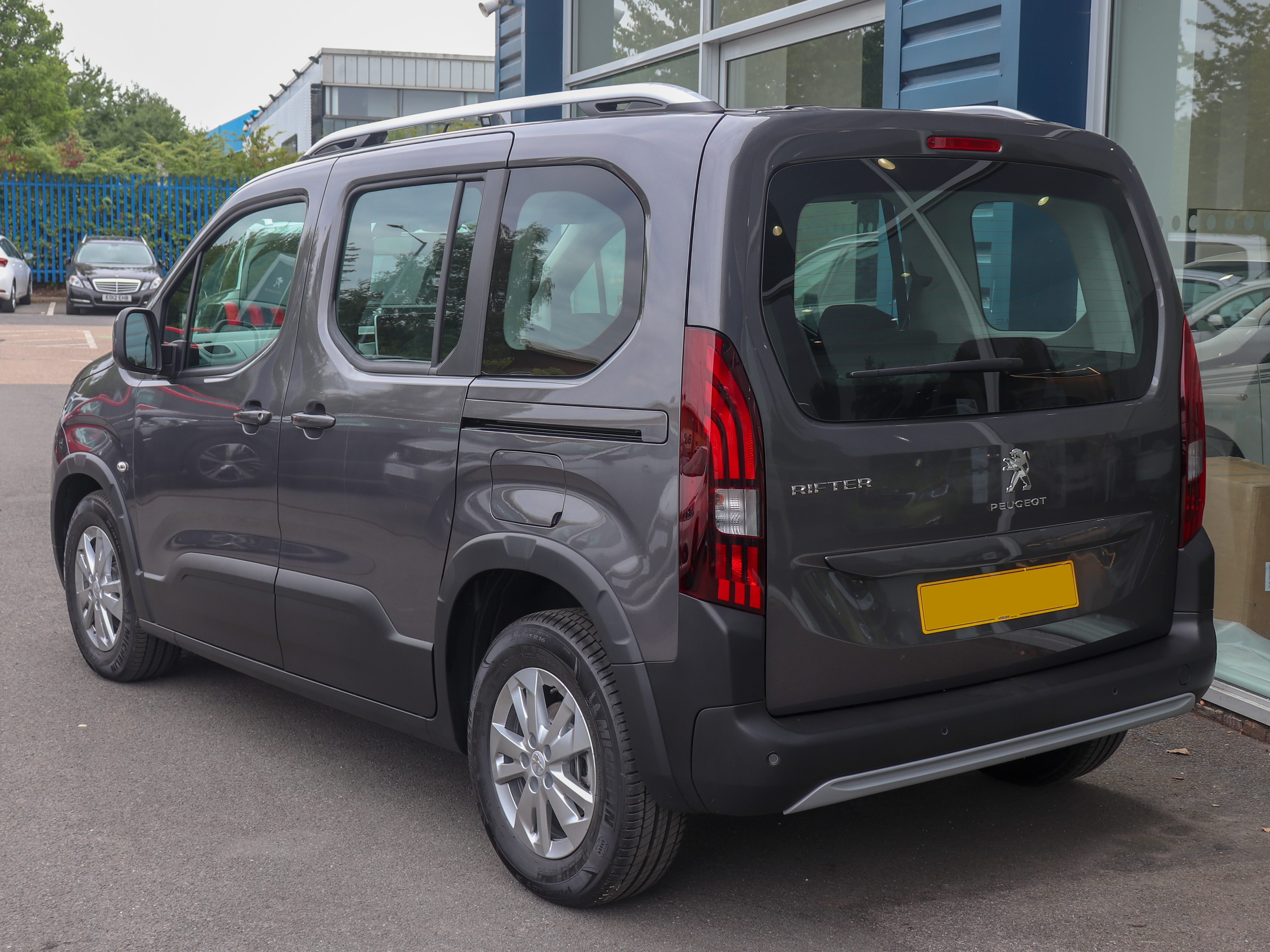 2018 Peugeot Rifter Allure BlueHDi 1.6 Rear Taken in Leamington Spa